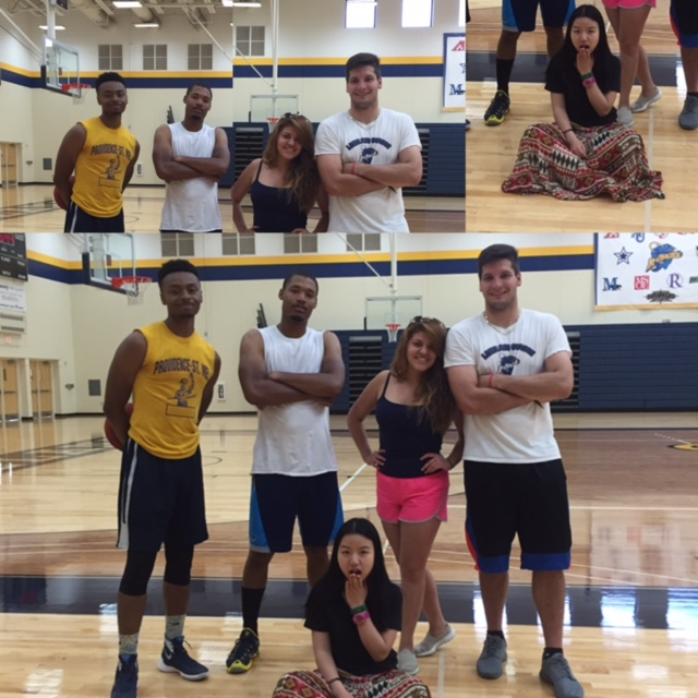 this picture shows the variety of cultures in one place. At the top-left side there are two American roomates, in the middle there is a Latin American girl next to an European student. At the lower part of the picture there is a Chinese girl sitting on the floor. All of them have different traditions, different cultures and they all come form different places of the world.